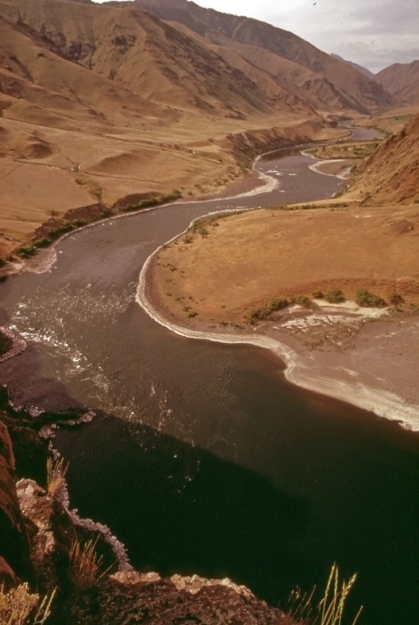 WINDING COURSE OF THE SNAKE RIVER VIEWED FROM TRAIL NEAR "SUICIDE POINT" IN HELLS CANYON, WILDEST AND DEEPEST GORGE IN NORTH AMERICA